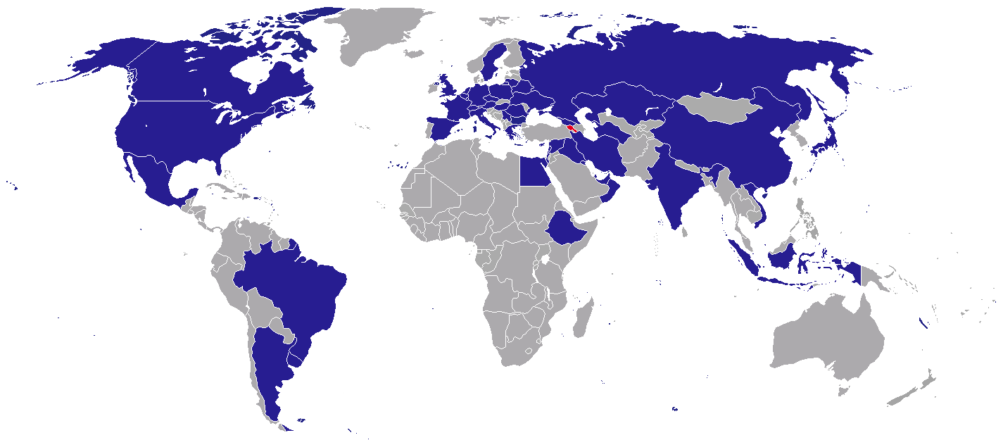 Countries with Armenian embassies Armenia Embassy